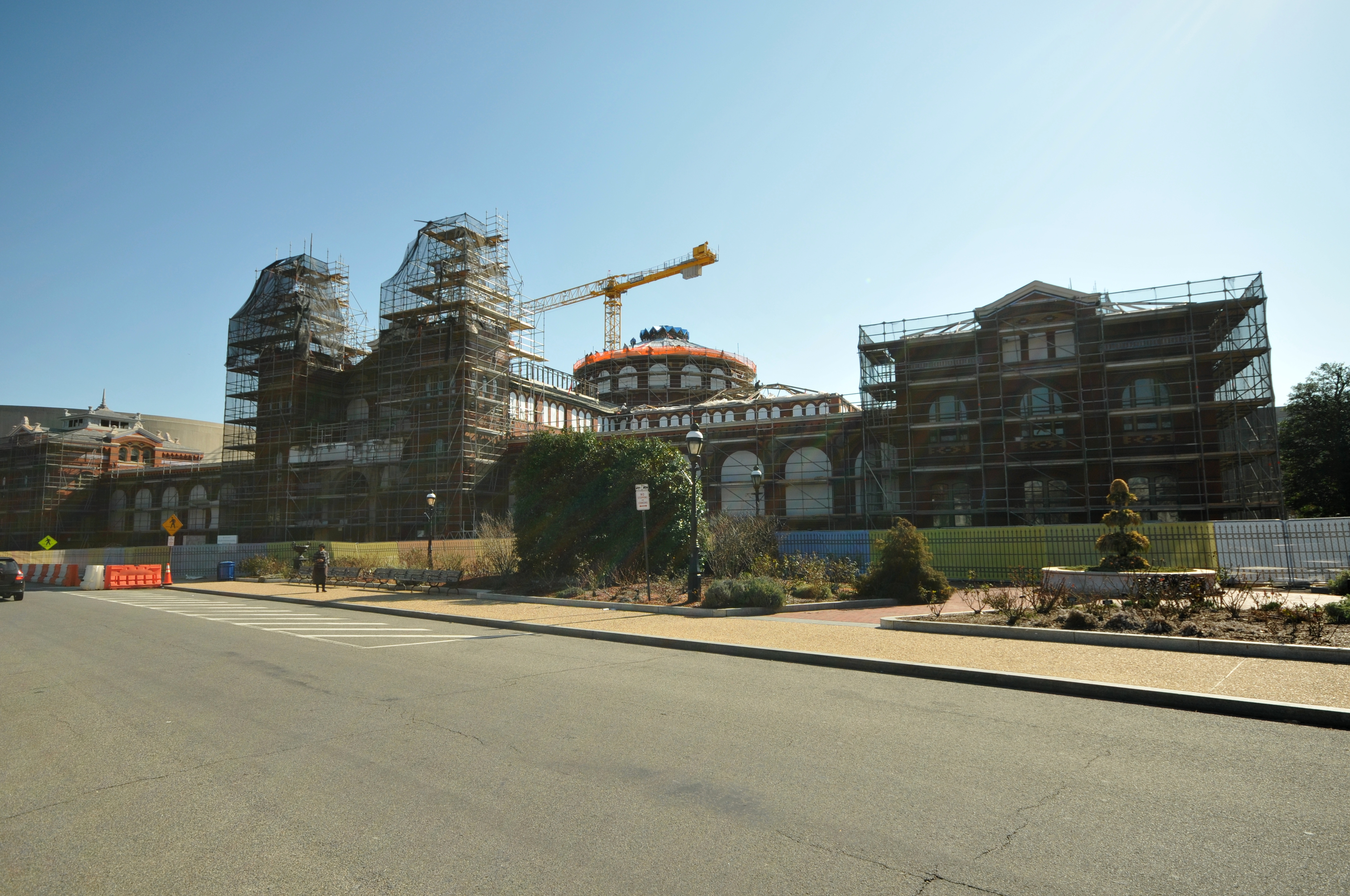 The arts and industry building is being renovated and has scaffolding up.